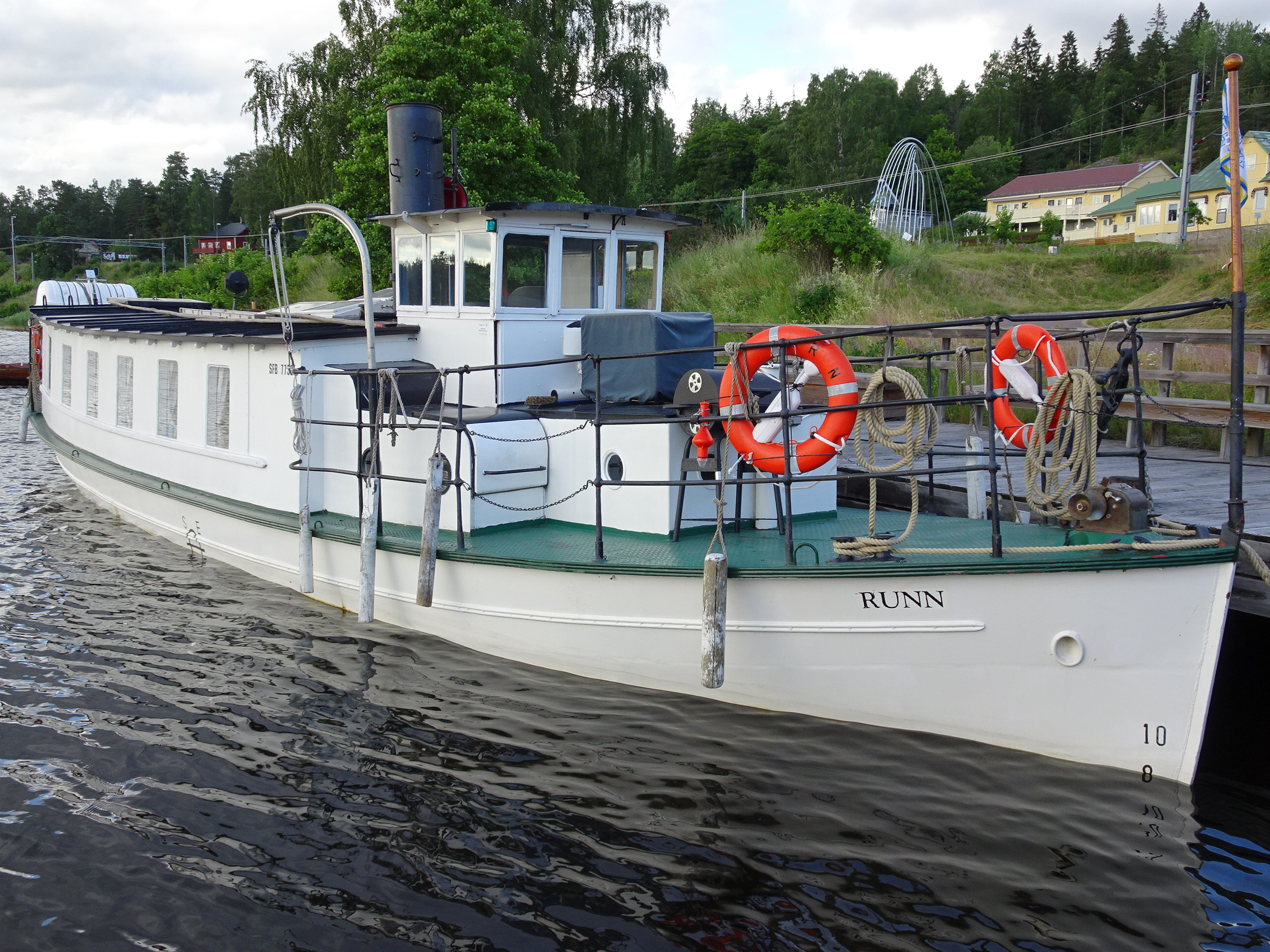 S/S Runn, Swedish passager ship in Strömsholms kanal, Sweden